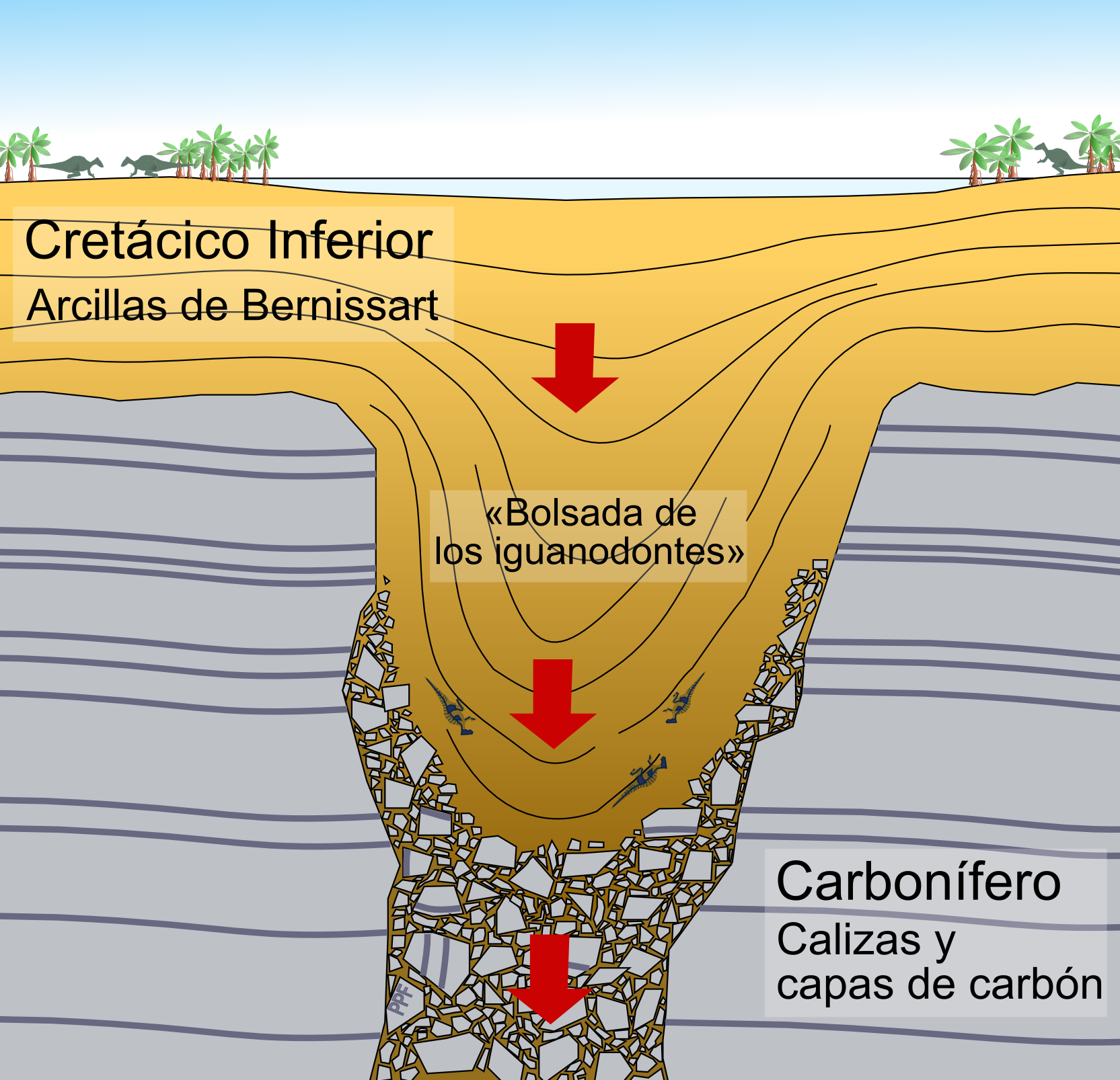 Site of Bernissart (Belgium). Scheme showing the formation of the deposits during the Early Cretaceous (fauna, flora and fossils are not to scale).